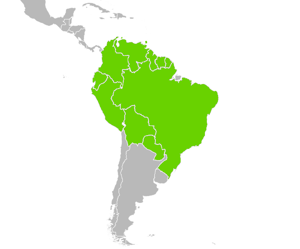 distribution of Eunectes murinus